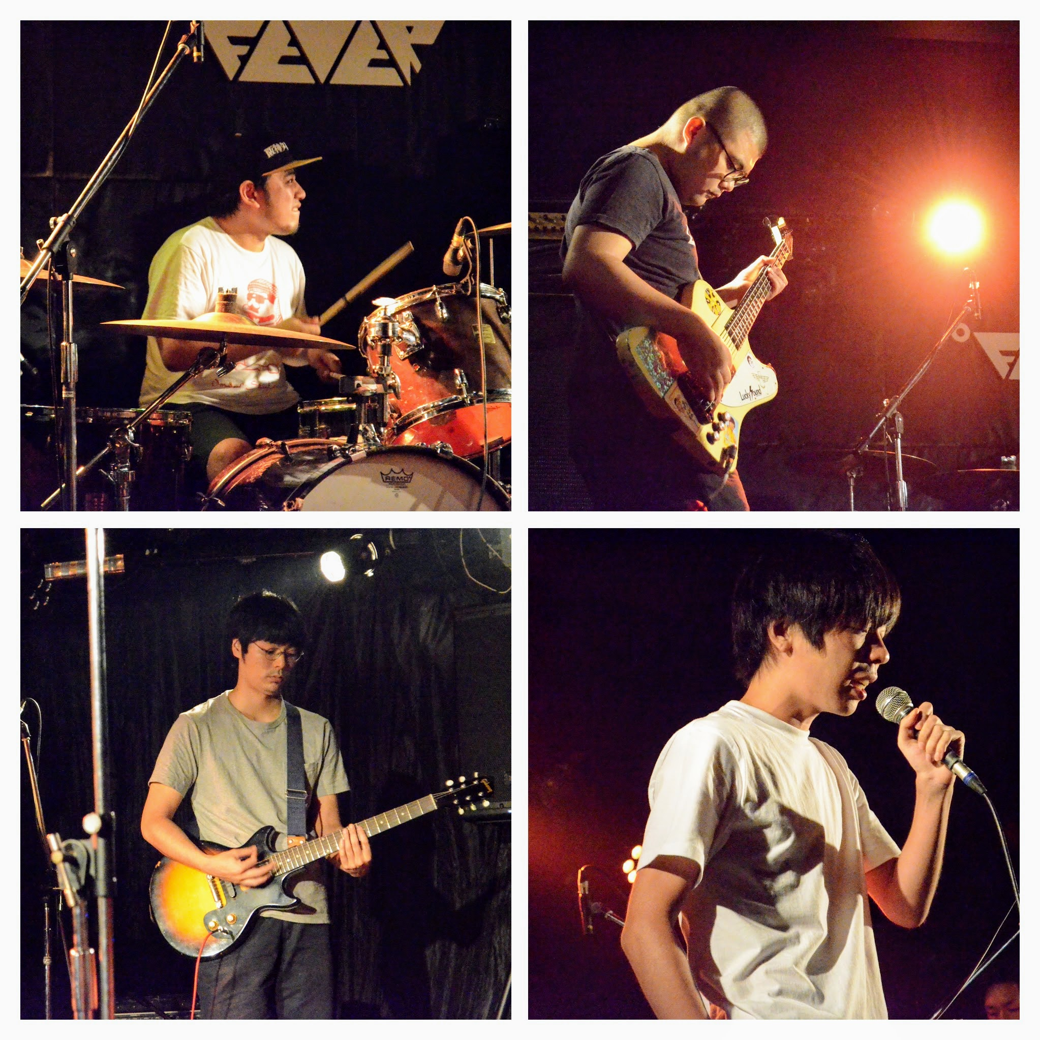 triplefire.jpg